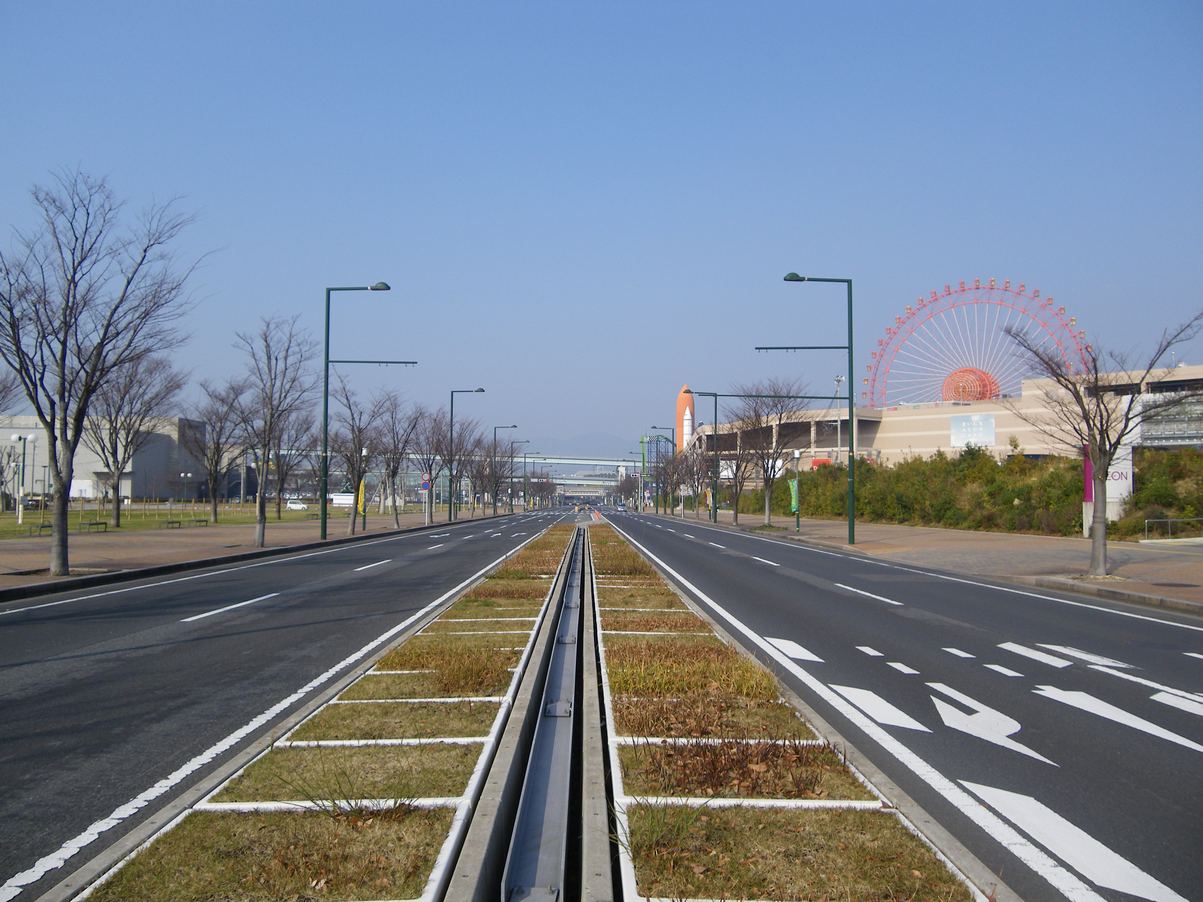 Higashida Street in Kitakyushu City, Fukuoka Prefecture, Japan